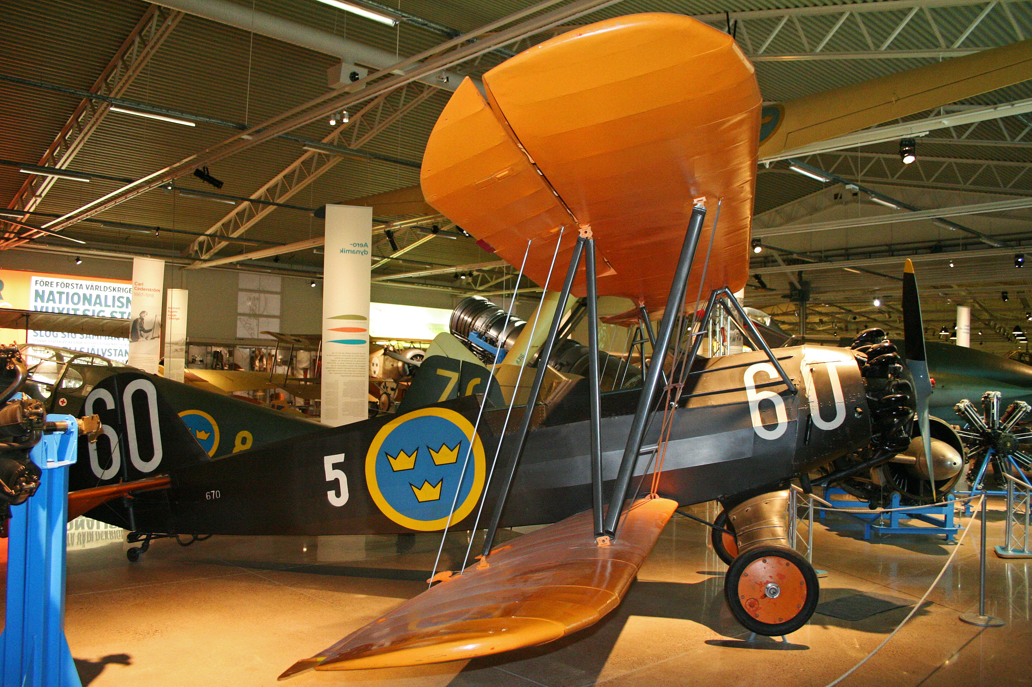 In prestine condition and carrying F5 unit markings. msn 52. Flyvapenmuseum, Malmen, Sweden. 04-06-2012